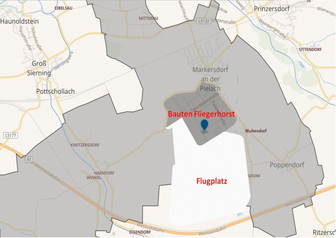 Approximate location of the former air base of the Wehrmacht in Markersdorf in Lower Austria. Map base Wikipedia maps.